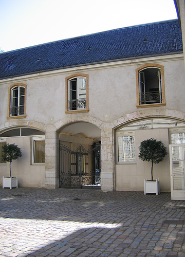 Lyon in France - museum arts decoratifs